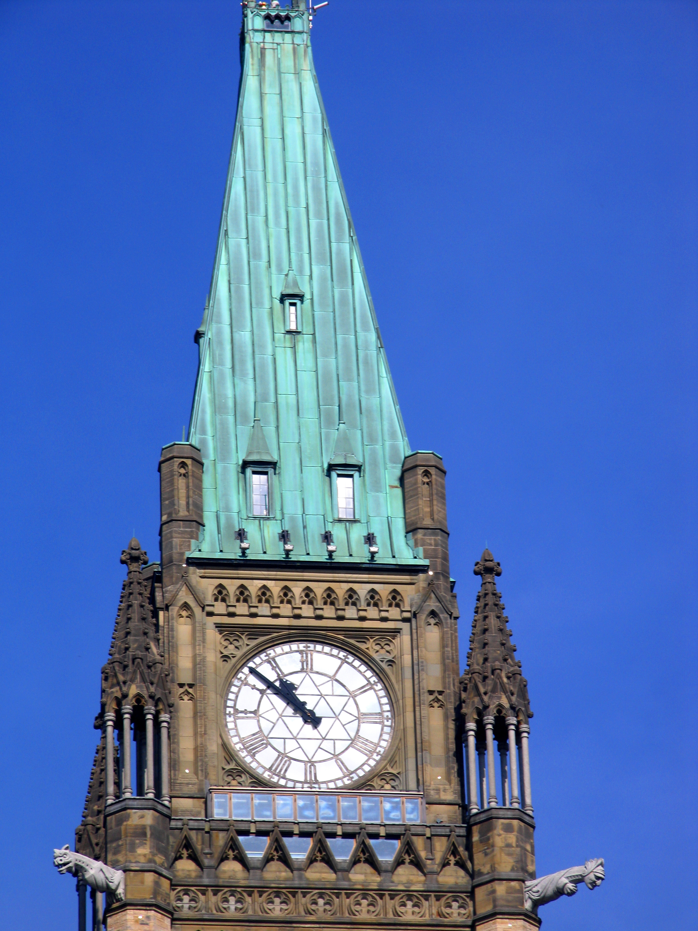 Peace Tower, Parliament buildings, Ottawa, Canada. Note the observation deck windows below the clock. The Roman numeral for 4 o'clock (IIII) is not in modern subtractive notation : IV, strange quirk which only applies to clocks according to WikiPedia.